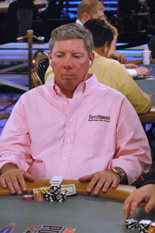 Mike Sexton in 2006 World Series of Poker - Rio Las Vegas.